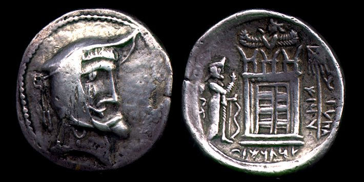 This is Autophradates, the king of Persis, sub-king of the Parthian Empire circa 3rd century BCE. CAUTION: This is Autophradates I, the king of Persis, sub-king of the Parthian Empire circa 3rd century BCE.